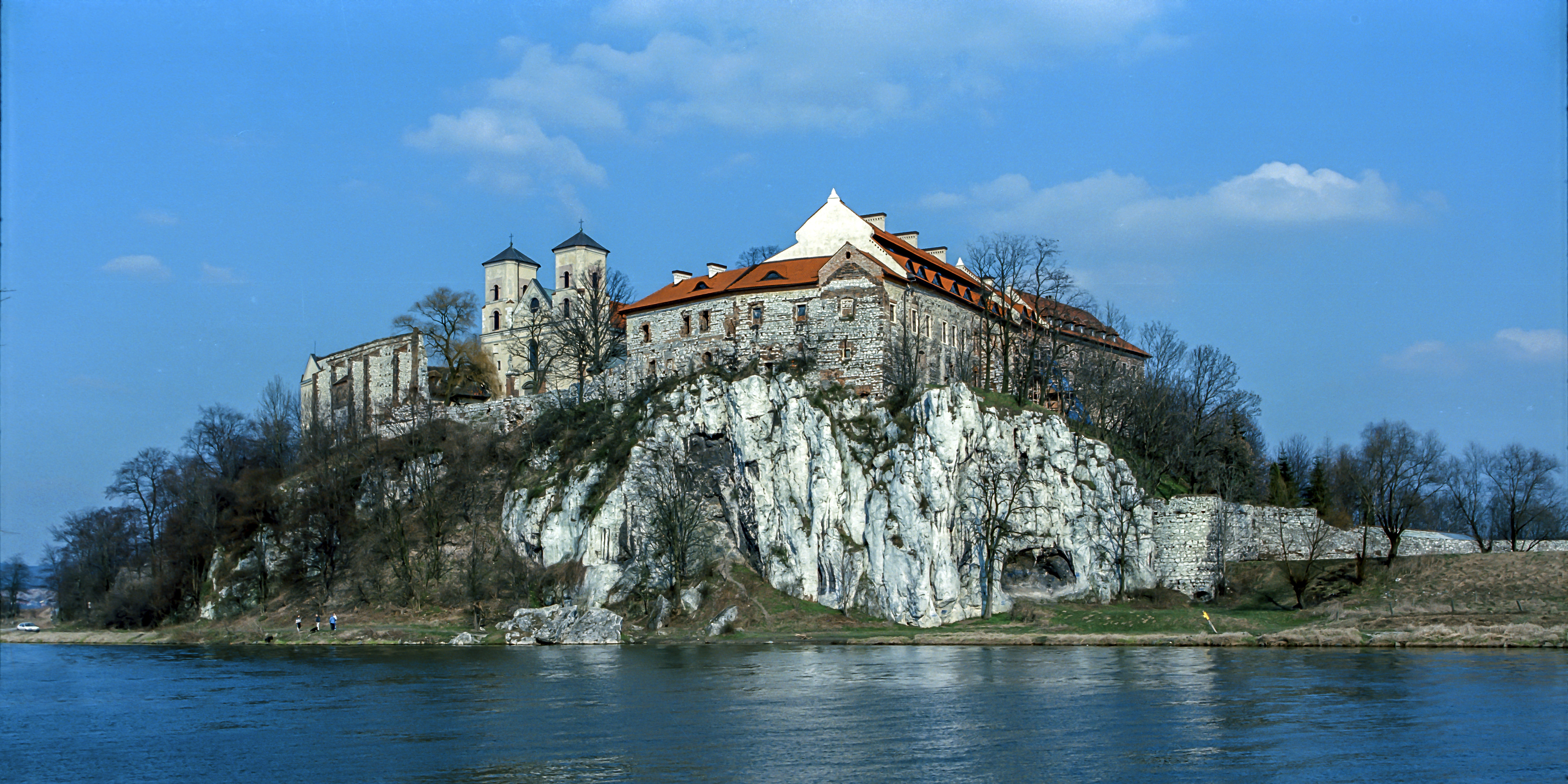 Tyniec Abbey beyond the Vistula river